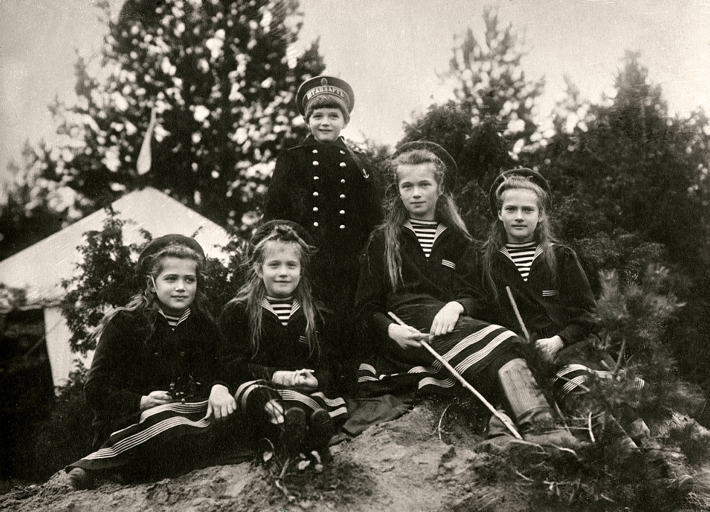 Grand Duchesses Maria Nikolaevna of Russia, Anastasia Nikolaevna of Russia, Tsarevich Alexei Nikolaievich of Russia, Grand Duchesses Olga Nikolaevna of Russia and Tatiana Nikolaevna of Russia at rest during a boat ride. Gulf of Finland.